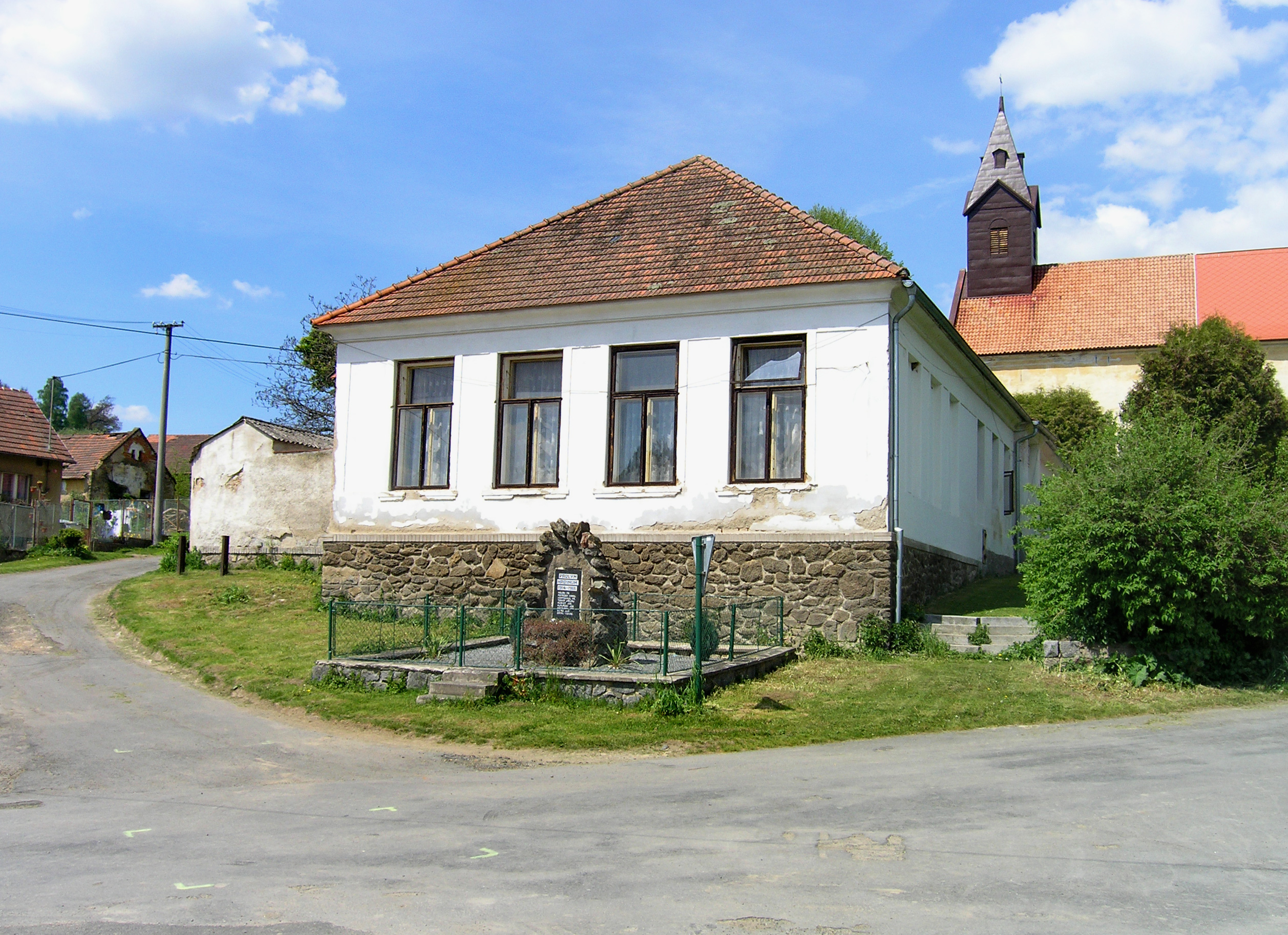 Old school in Martinice, part of Votice, Czech Republic